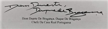 Duarte Pio de Bragança autograph.